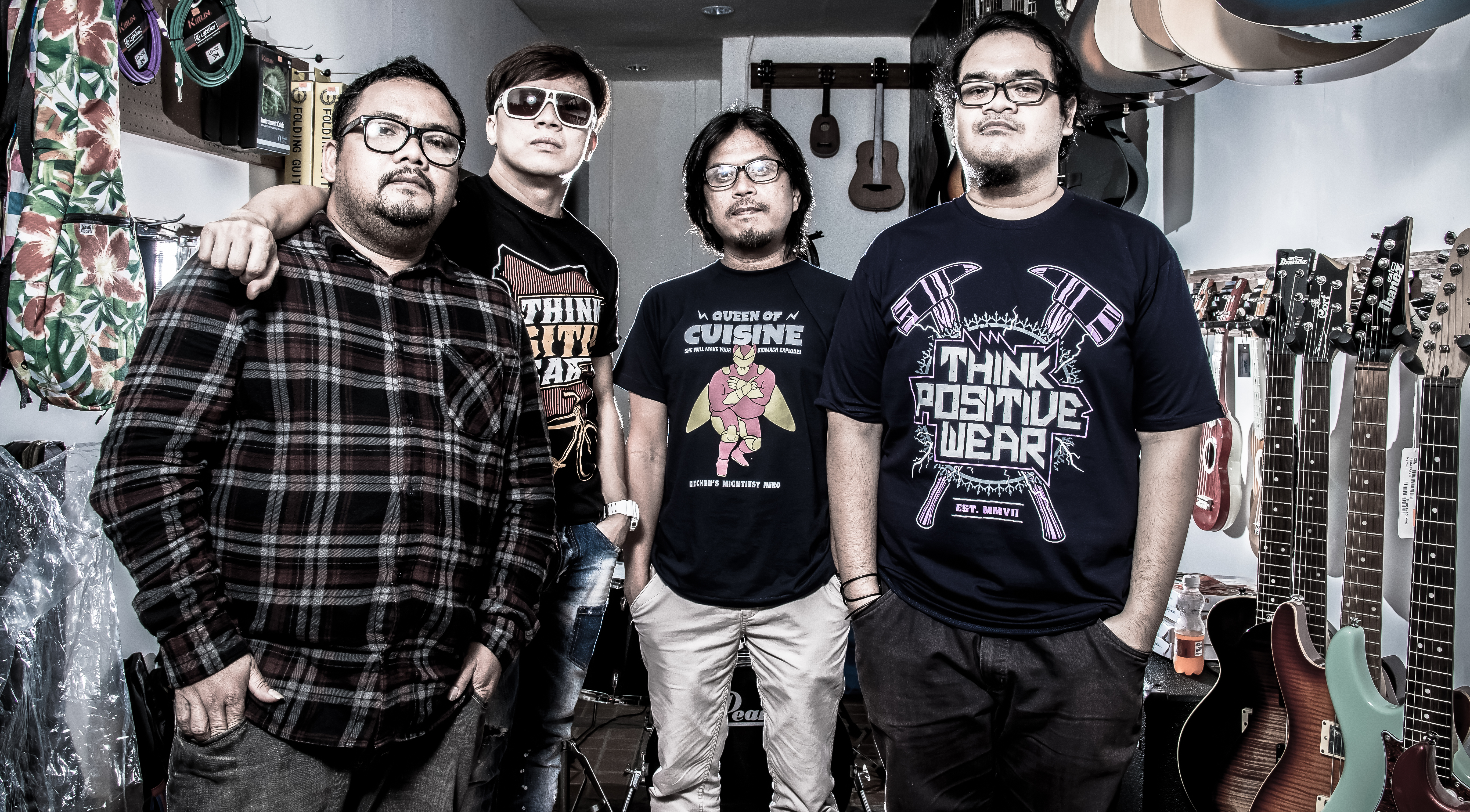 Missing Filemon at the airport on their way to Zamboanga del Sur, Philippines for a show..